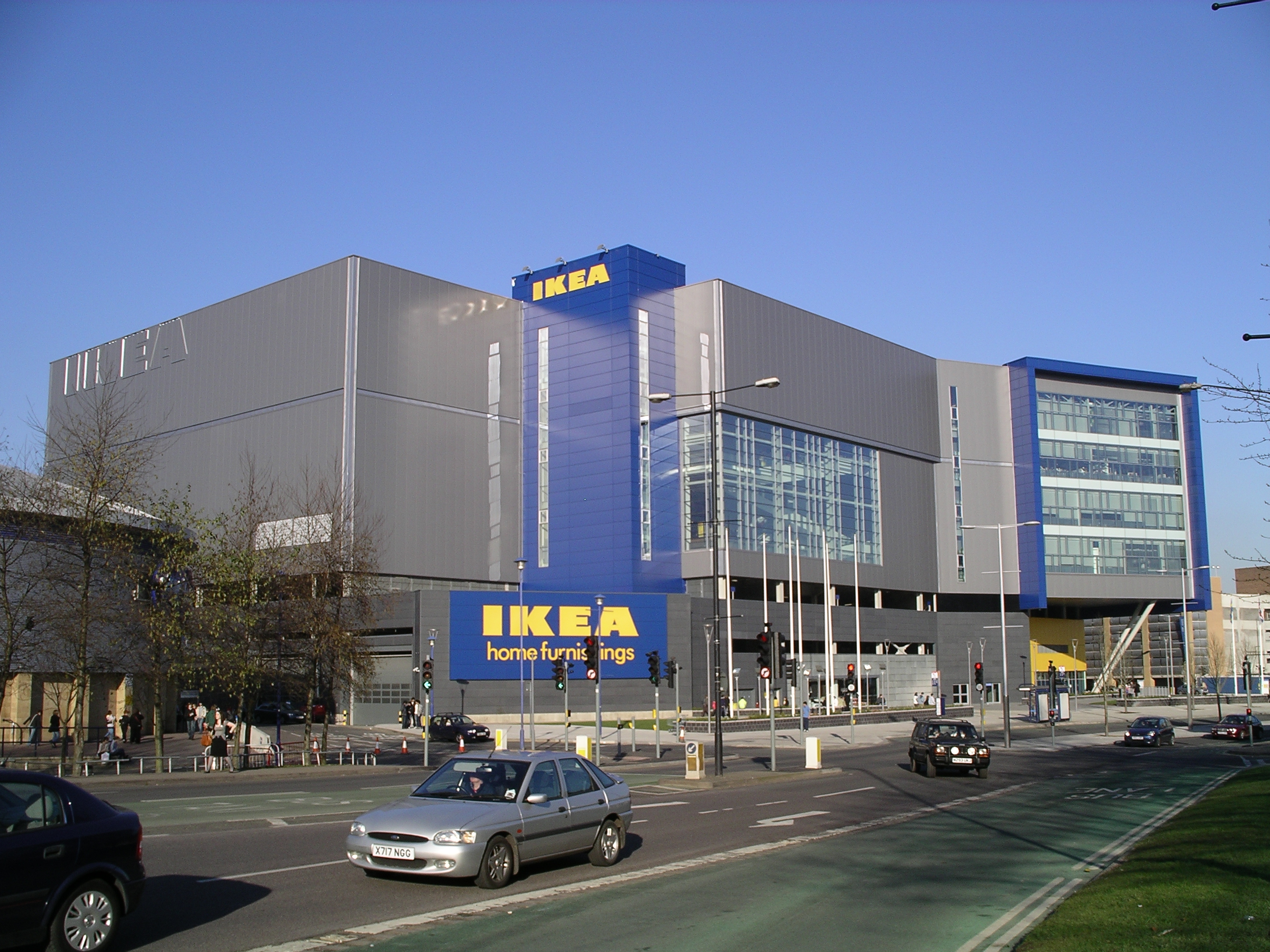 IKEA, Coventry, England.